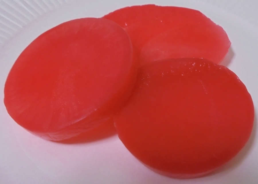 Sakura Daikon (Dagashi